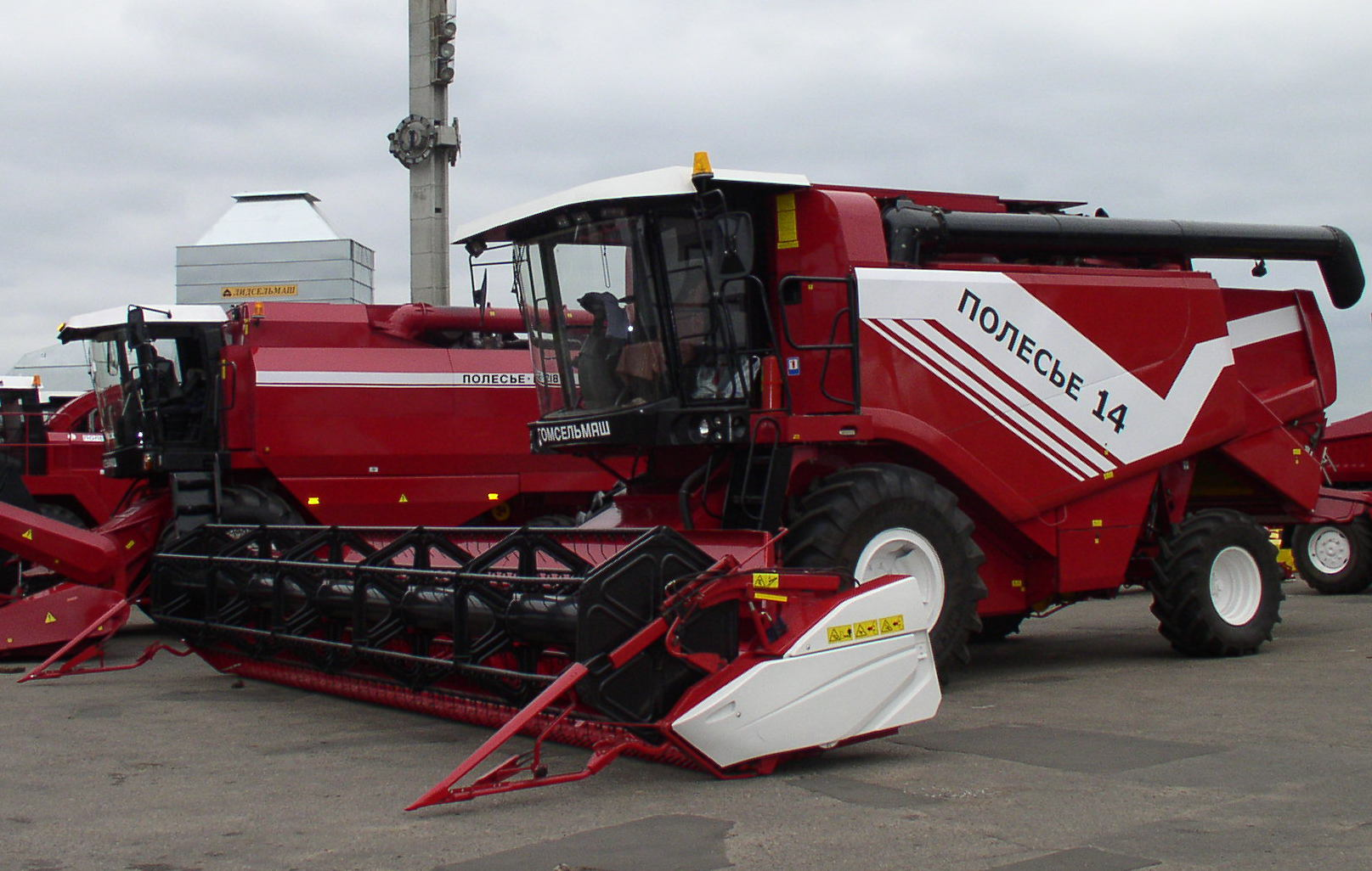 Gomselmash Palesse-14 combine harvester. Agriculture Expo in Minsk, Belarus.